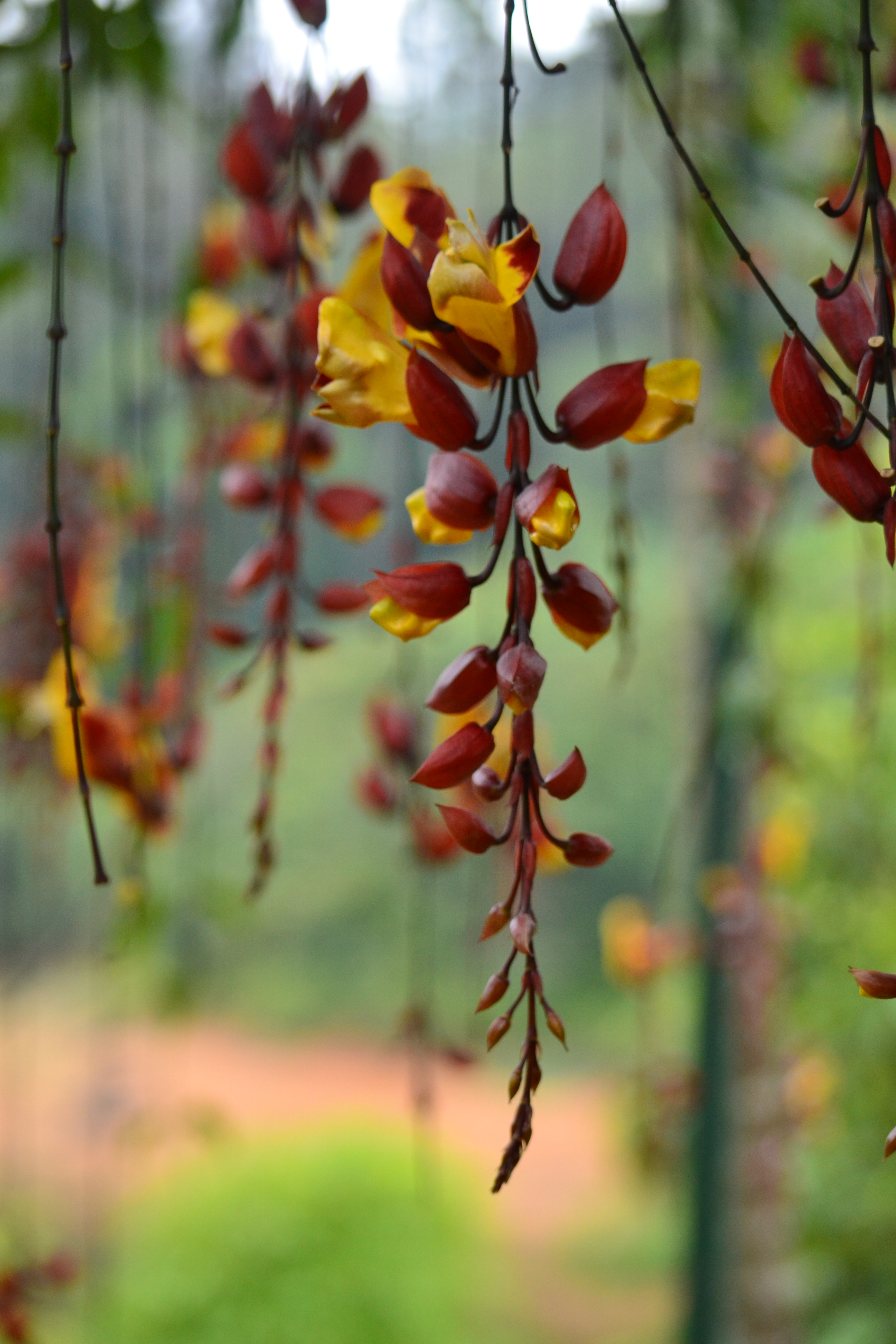 Flower found in Gavi,Kerala